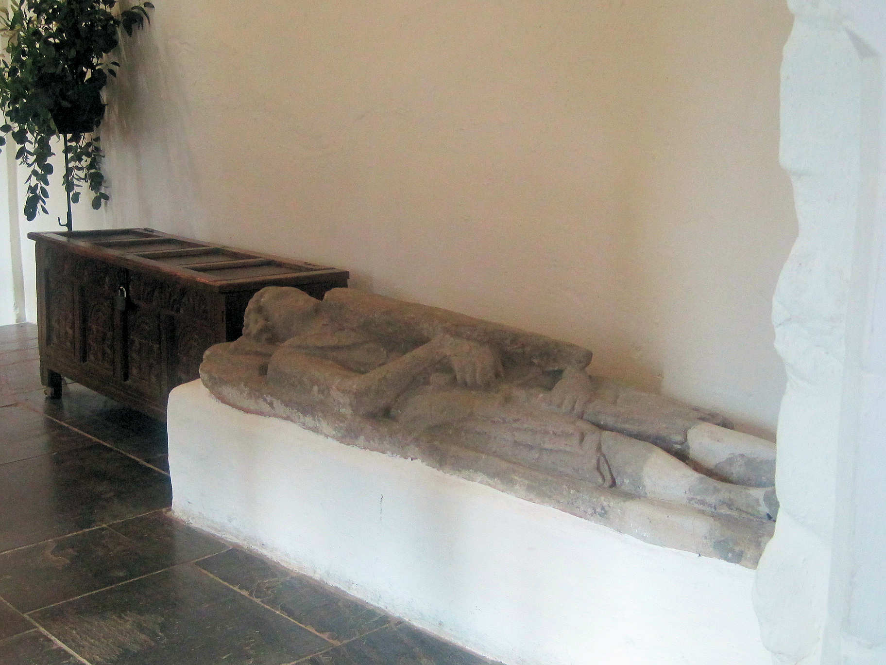 Grave of Iorwerth Drwyndwn, son of Owain Gwynedd, as found in the church at Pennant Melangell, north Wales. Bedd garreg Iorwerth Drwyndwn sef mab Owain Gwynedd. Saif y bedd yn Eglwys Pennant Melangell.